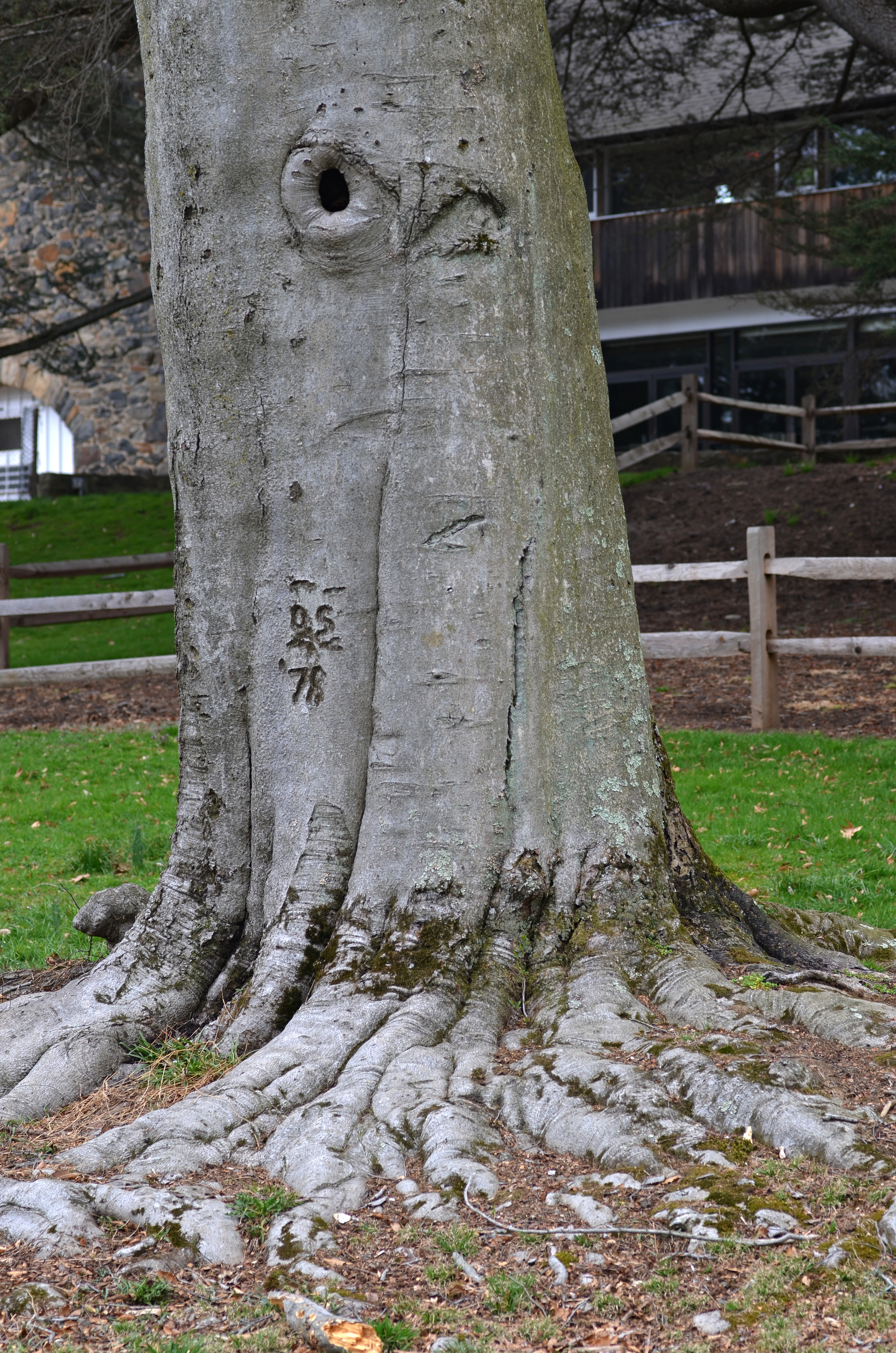 Photograph of the trunk of the American Beechen (Fagus grandilolia en ). Photo taken at the Tyler Arboretum where its species was identified.